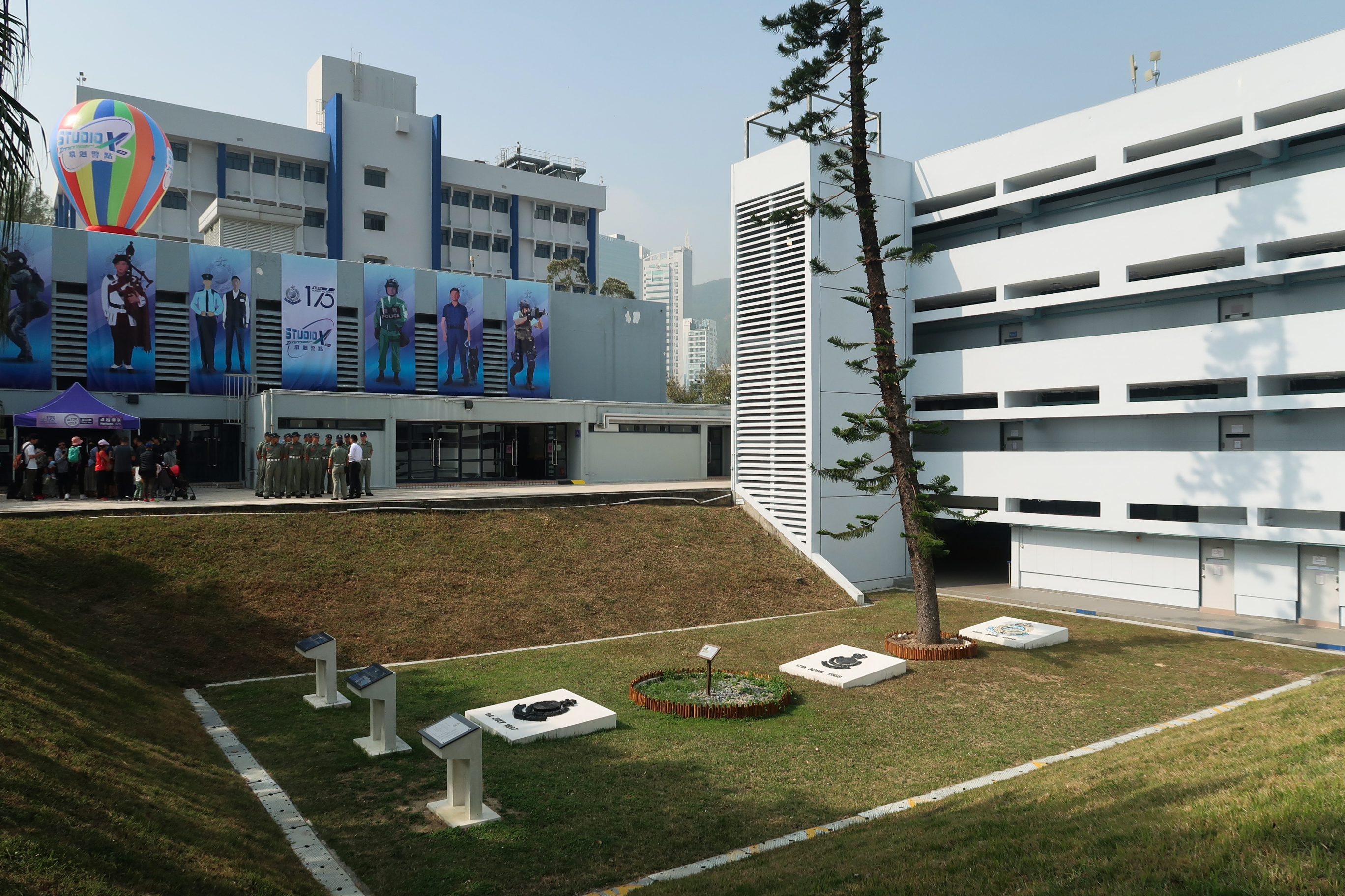 Hong Kong Police College Memorial Yard